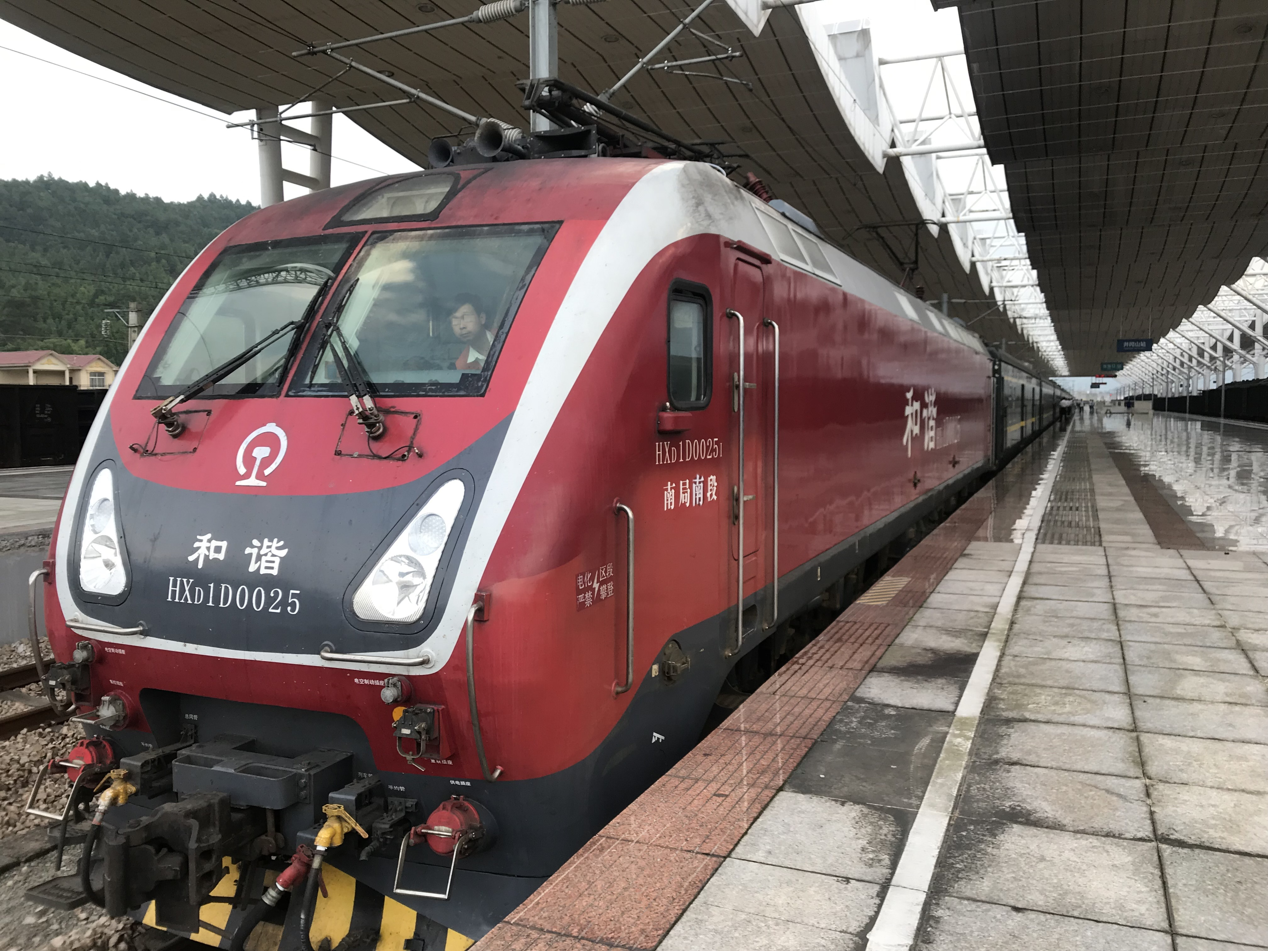 201906 HXD1D-0025 hauls K272 at Jinggangshan